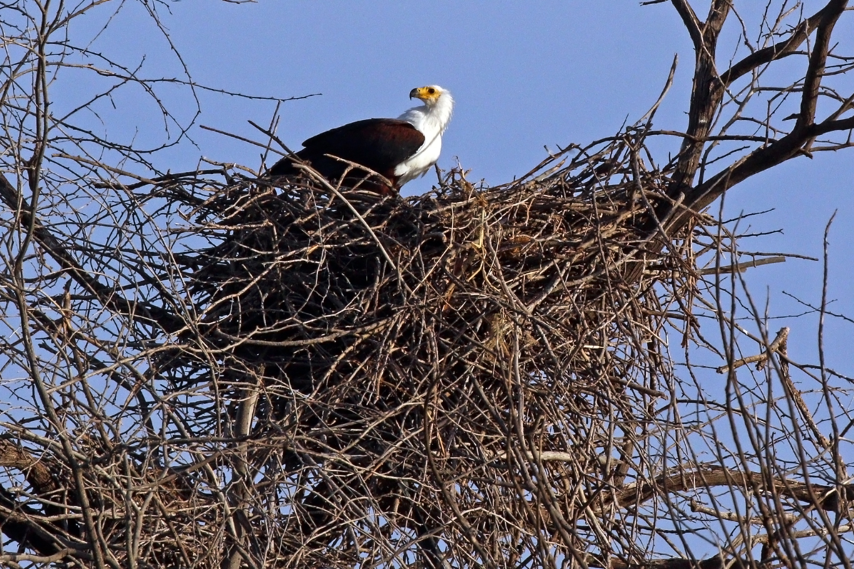 African fish eagle (Haliaeetus vocifer) on nest, Lake Baringo, Kenya